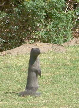 Galerella pulverulenta Small Grey Mongoose, late adolescent, member of small family party in garden, not human habituated, inspecting surroundings.